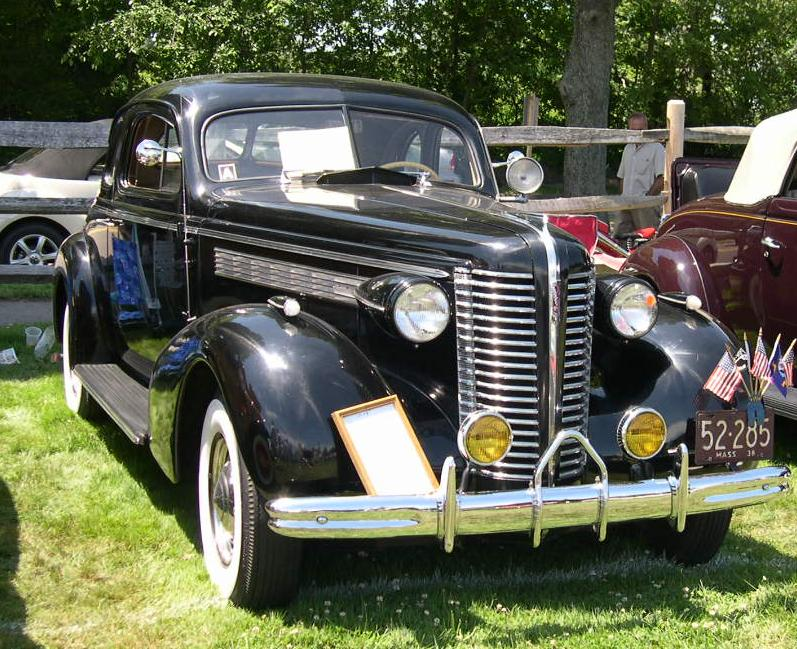 1937 Dodge Coupe D5 (This is a 1939 Buick, not a Dodge.) Source: Photographed at the Bay State Antique Automobile Club's July 10, 2005 show at the Endicott Estate in Dedham, MA by User:Sfoskett